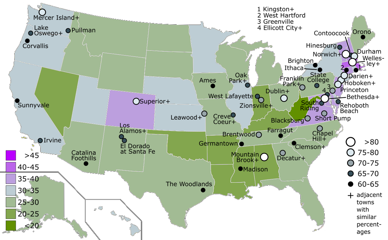 Percentage of adults 25+ with bachelor degree or higher by state, including towns with extremly high percentages (60% and above)